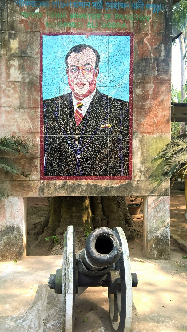 Mohammed Ali Palace Museum & Park also known as Palace Museum in Bogra is the eminent archaeological sight located in Bogra.